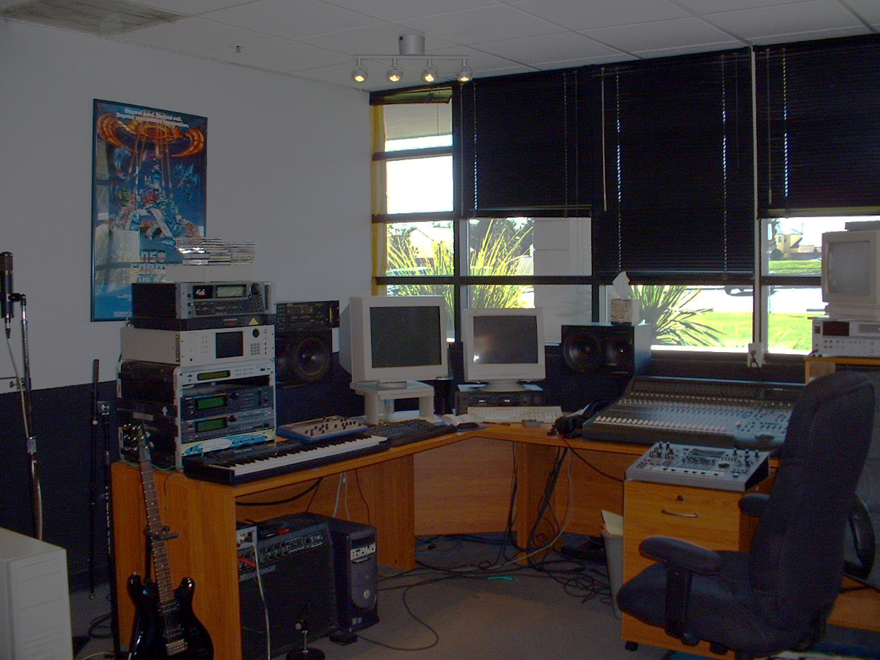 The former office at Westwood Studios before it closed